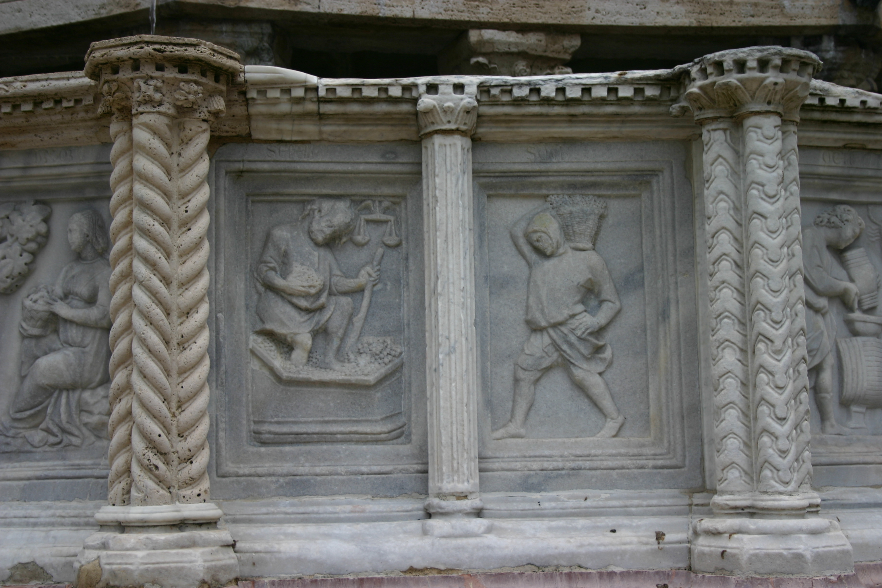 Perugia, the Fontana Maggiore (Main Fountain), sculpted after 1275 by Nicola Pisano and Giovanni Pisano. This image belongs to the series depicting human activities through the year. Here are portraied human activities taking place in the month of September (vintage). Picture by Giovanni Dall'Orto, August 5, 2006.